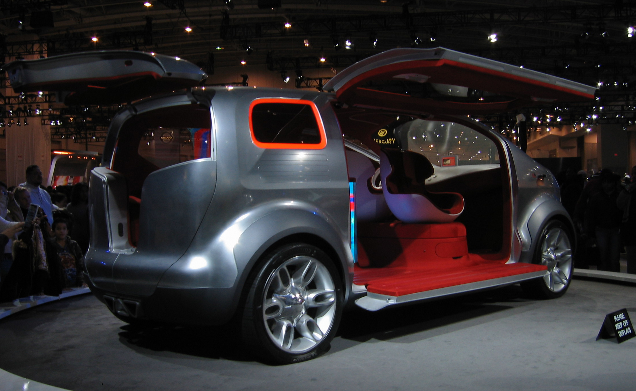 Ford Airstream at the 2007 Washington Auto Show